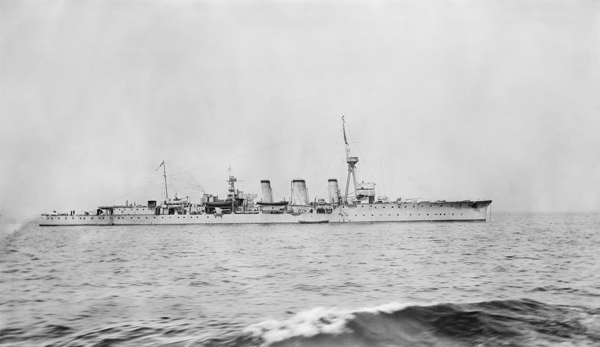 British light cruiser HMS CAROLINE.